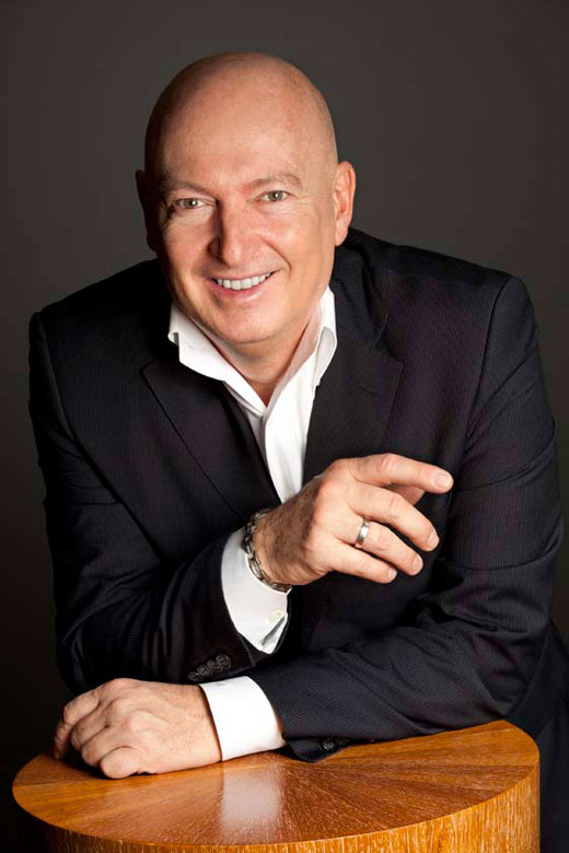 Photo courtesy of Greg Gorman Photography